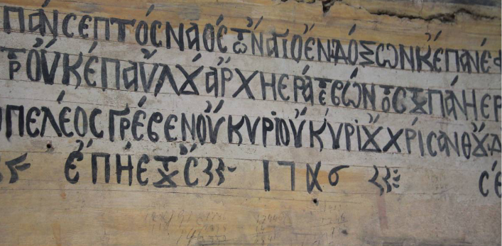 Apostles Church in Pylori Iscription